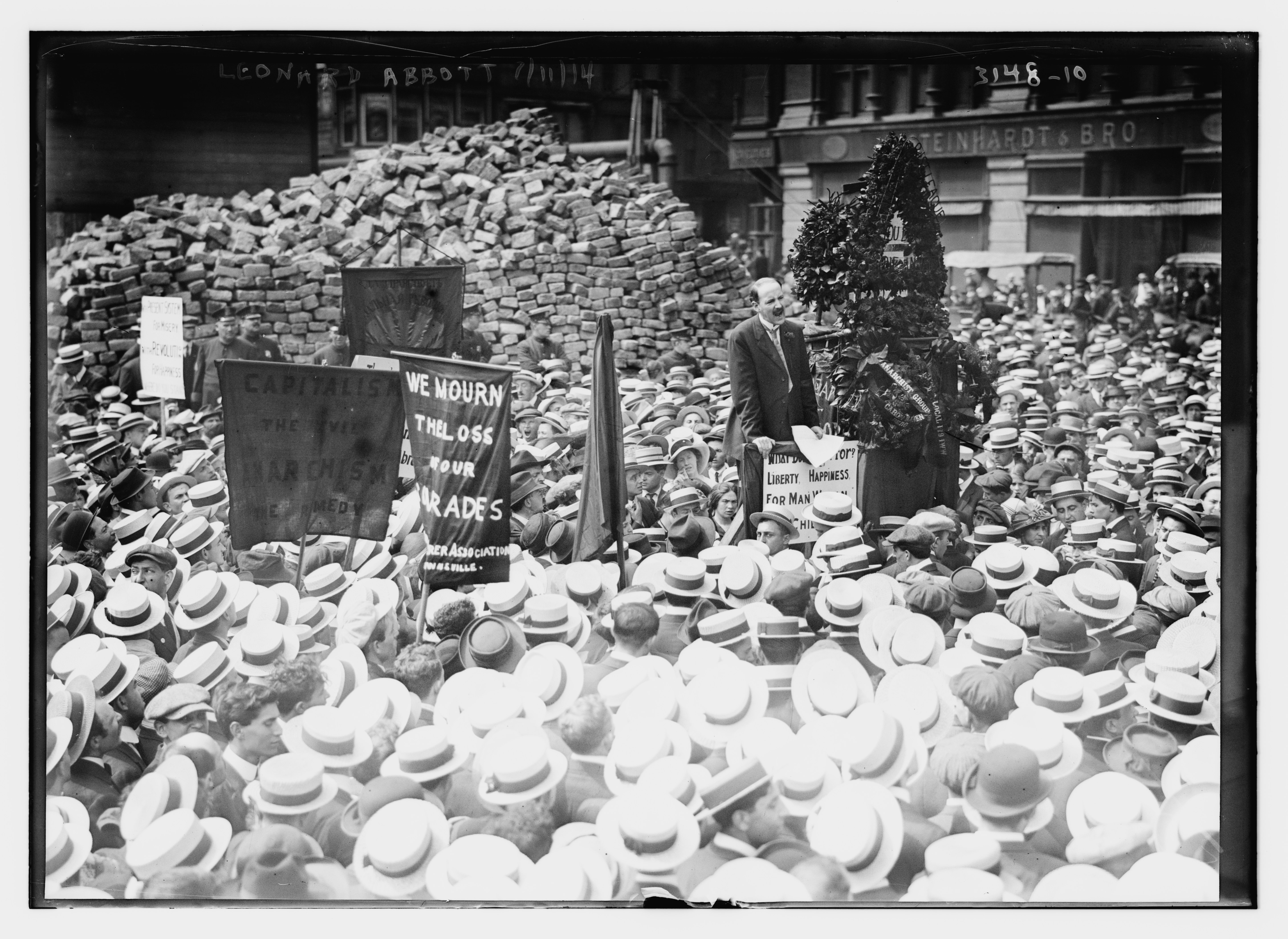 Title: Leonard Abbott Abstract/medium: 1 negative : glass ; 5 x 7 in. or smaller.